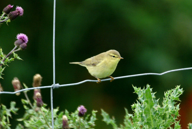 Willow Warbler (Phylloscopus trochilus), Norwick A common migrant in Shetland, although it very rarely breeds, despite being a very common breeding bird over much of northern Europe.